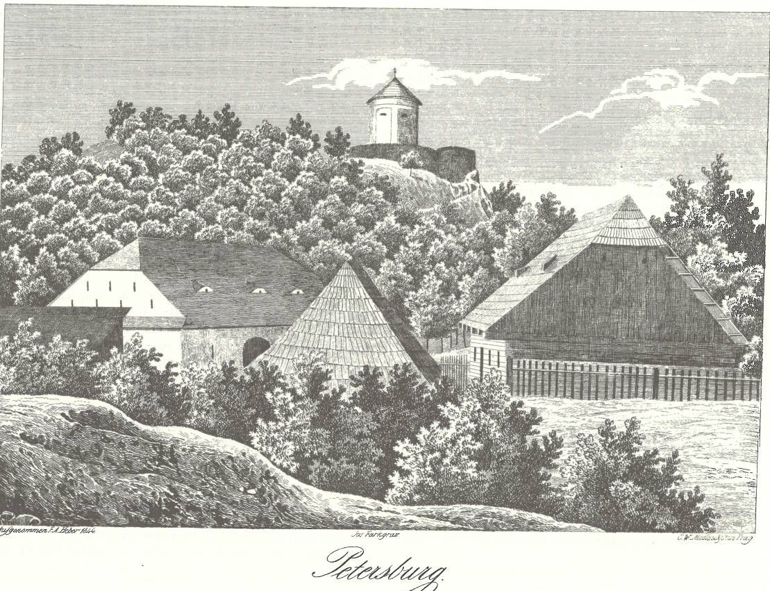 Petrohrad Castle (Czech Republic) by F. A. Heber in 1844